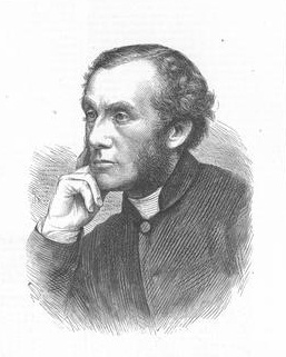 William Dalrymple Maclagan (1826-1910)